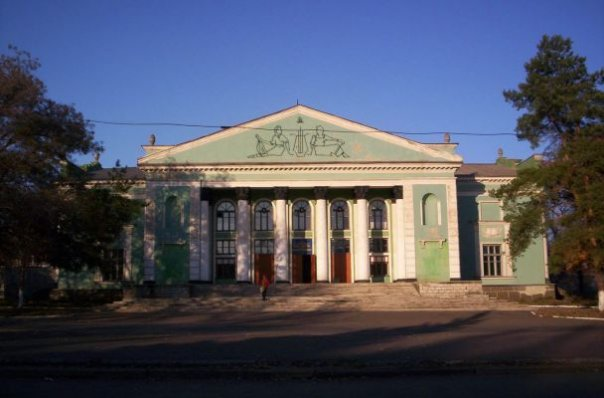 DK imeni Majakovskoho